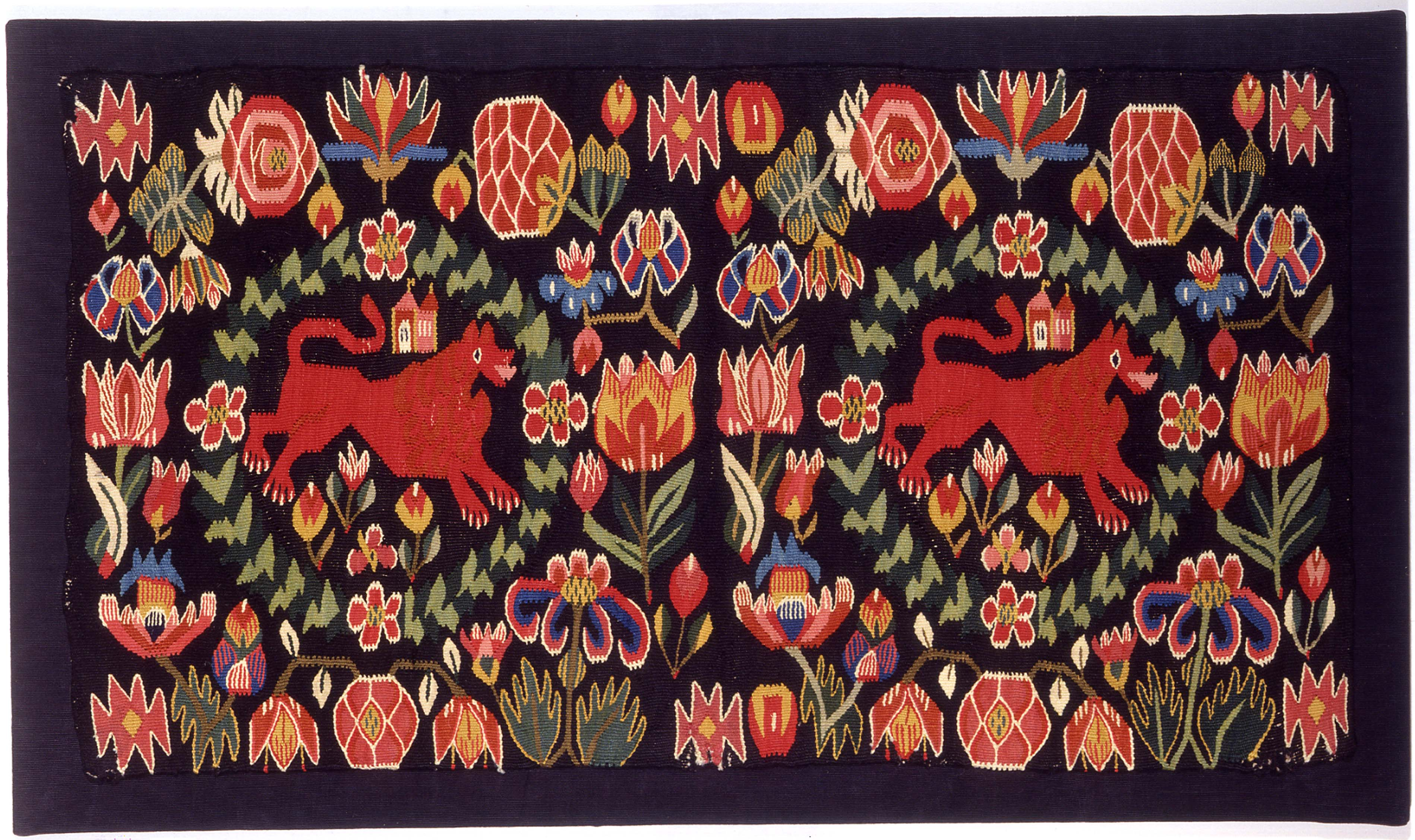 Carriage Cushion Cover (Two Lions in Floral Roundels), Sweden, Scania, Bara district, late 18th century. From the Nasser D. Khalili Collection of Swedish textiles.